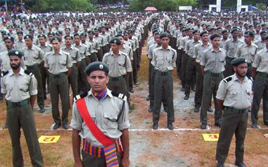 my own